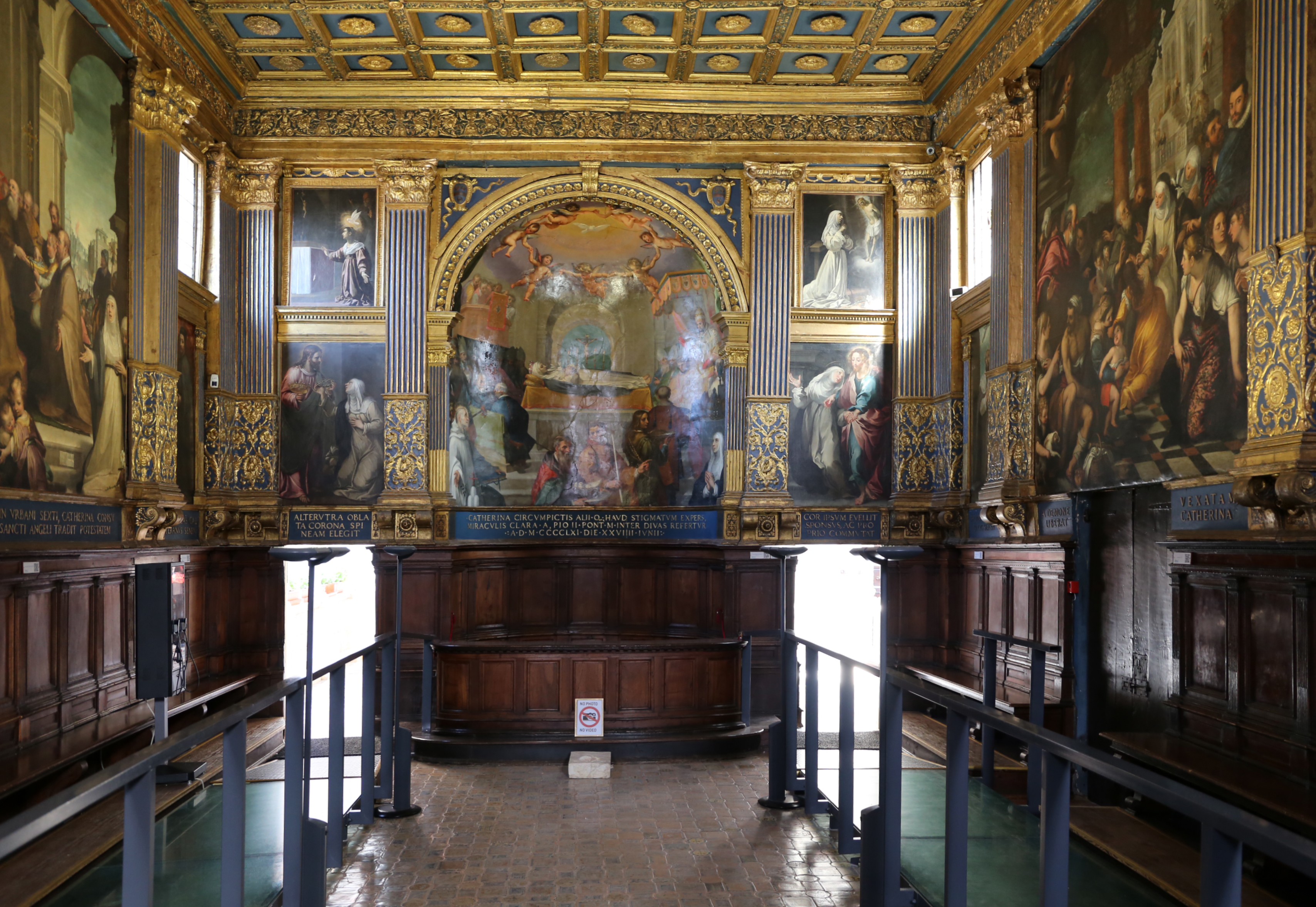 House of Saint Catherine of Siena - Interior